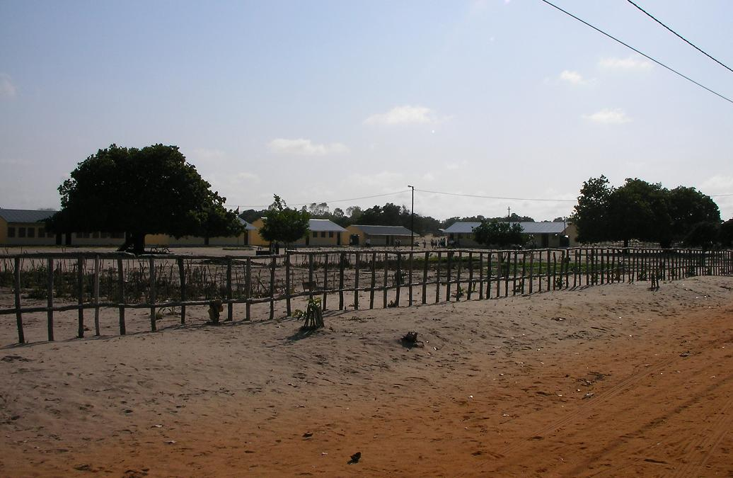 a view of buildings in Mabote, Mozambique from the main road